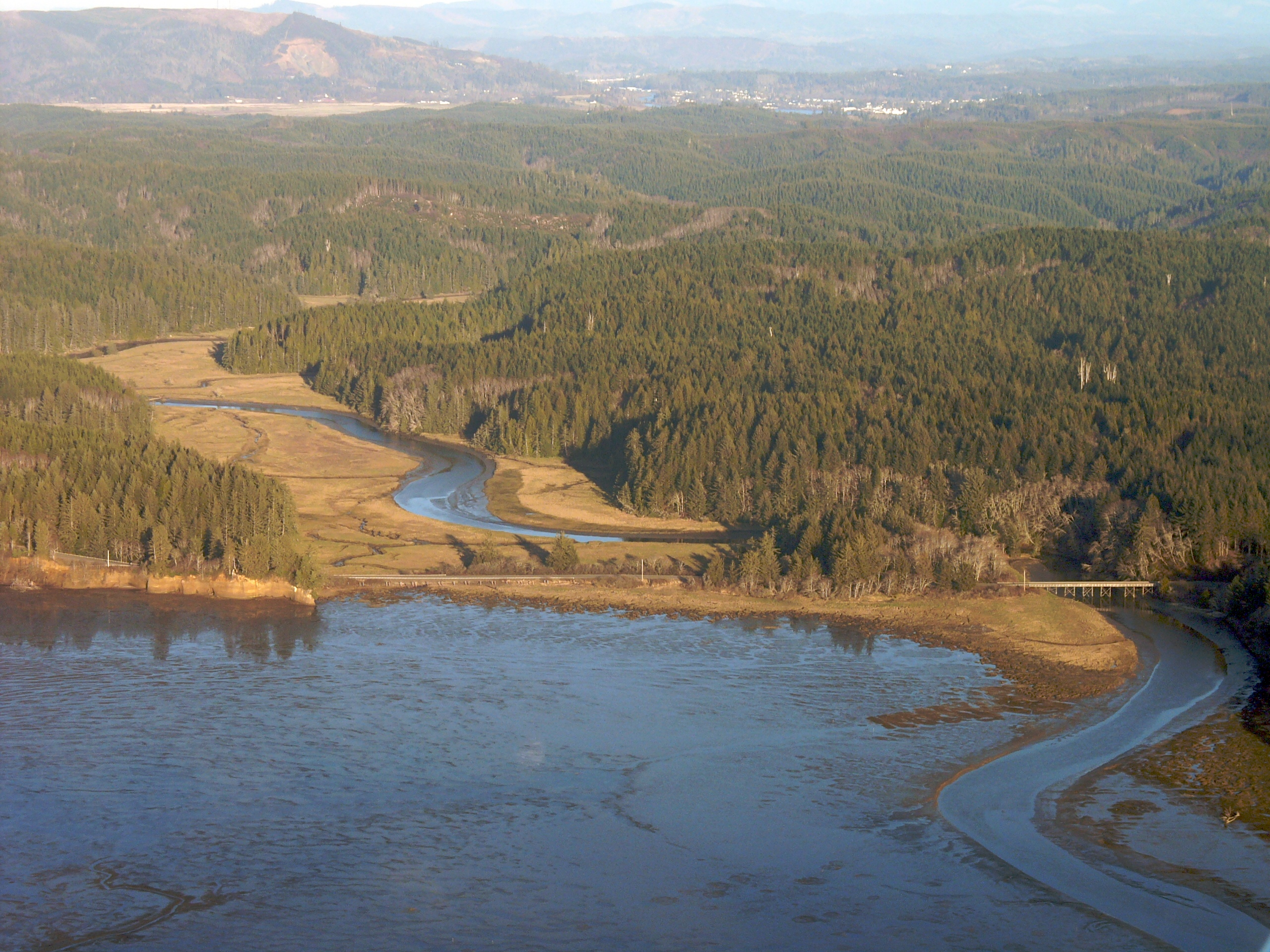 Aerial photograph of the mouth of Bone River, Washington, USA